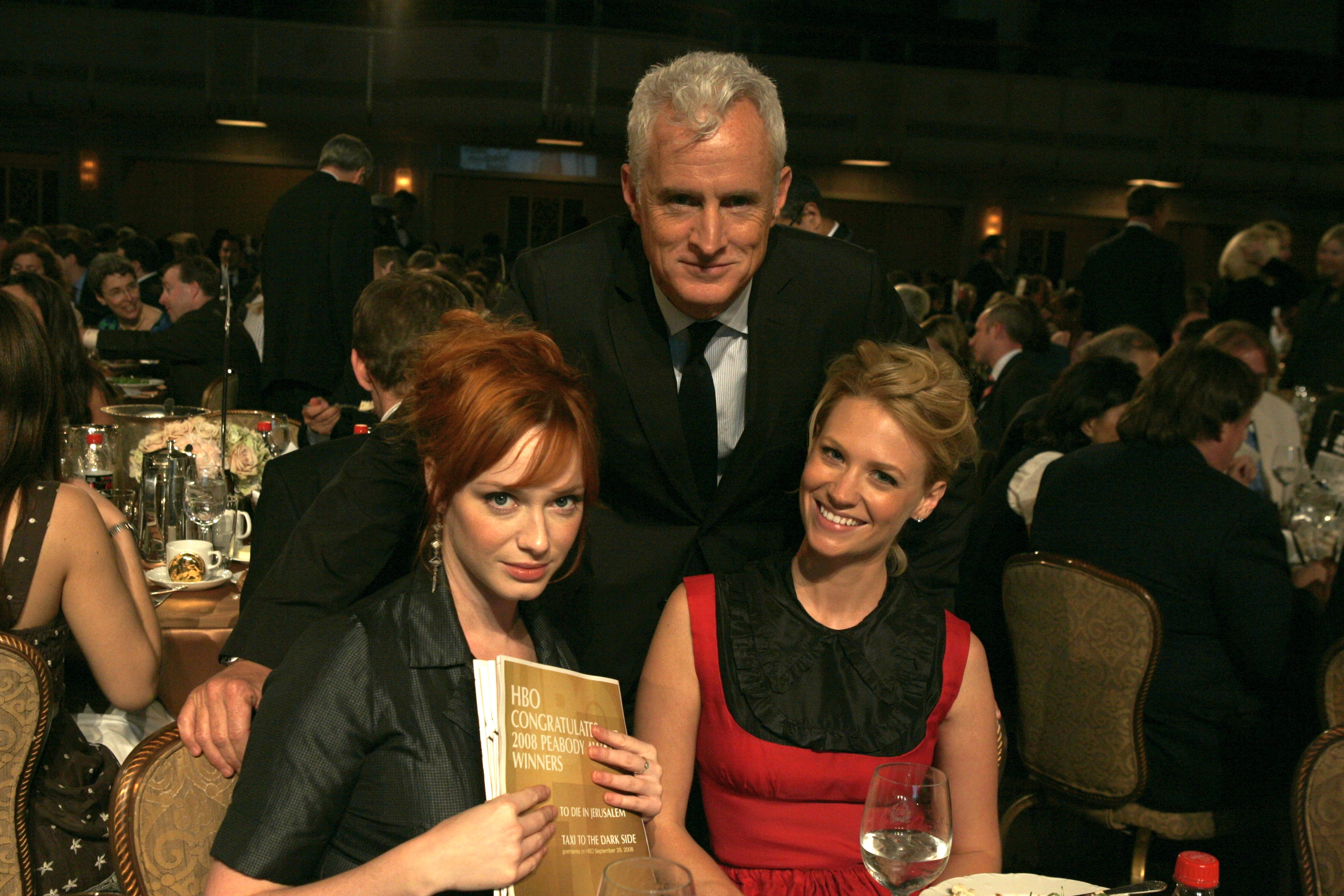 Christina Hendricks, John Slattery and January Jones. 67th Annual Peabody Awards Luncheon. Waldorf-Astoria Hotel. New York, NY USA. June 16, 2008.